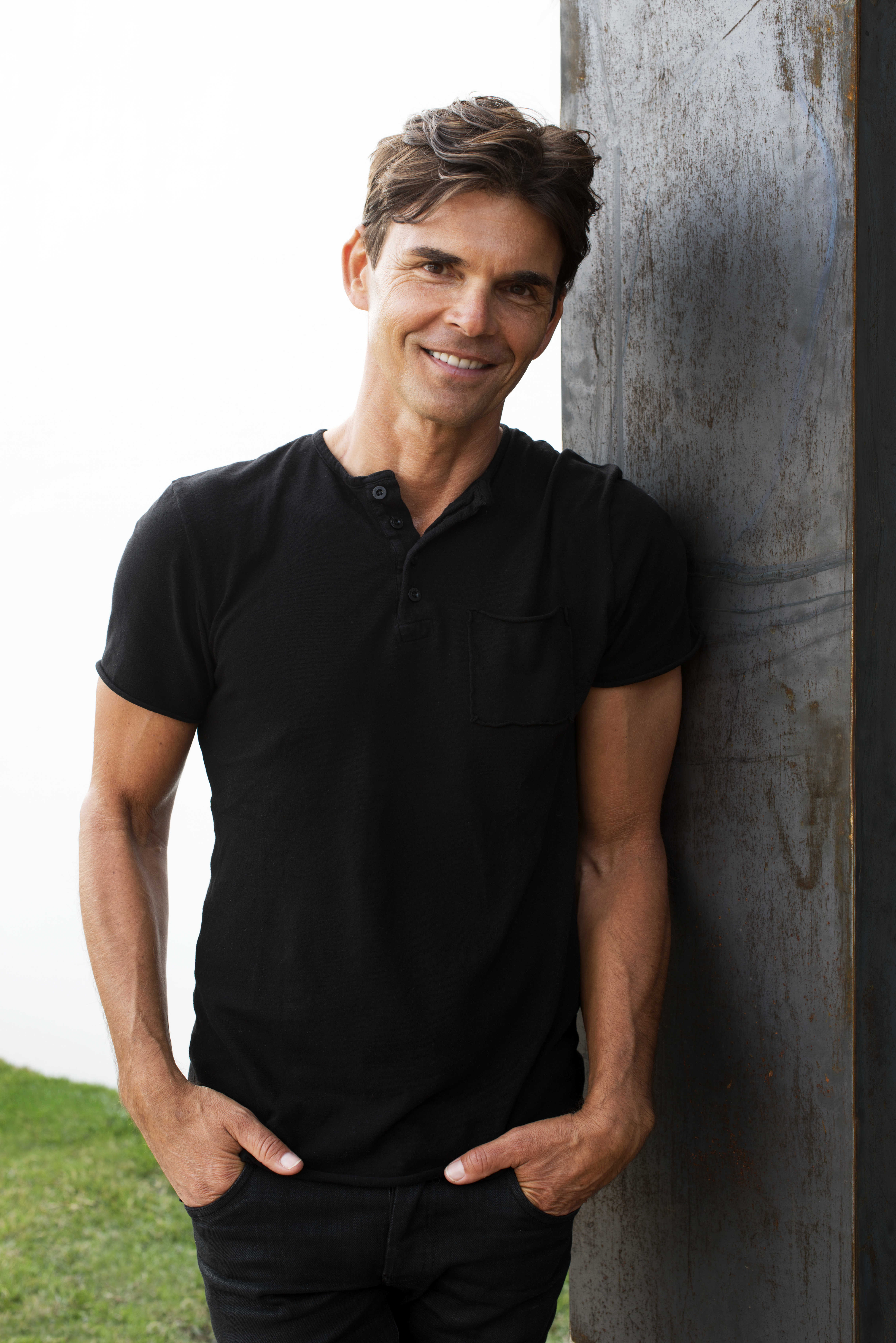 Matthew Kenney Portrait